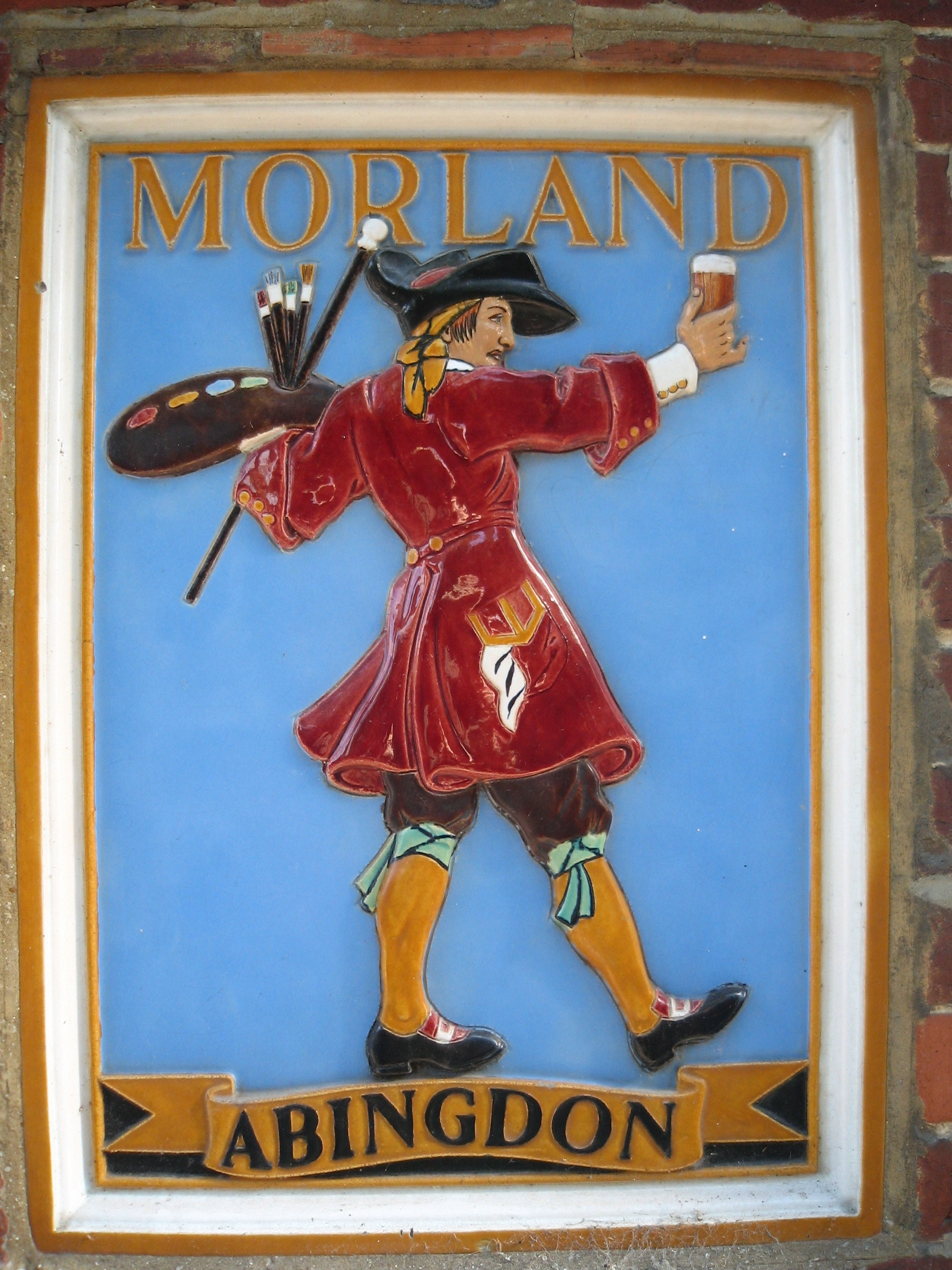 The Greyhound, Letcombe Regis, Vale of White Horse, England: plaque of former Morland Brewery of Abingdon-on-Thames